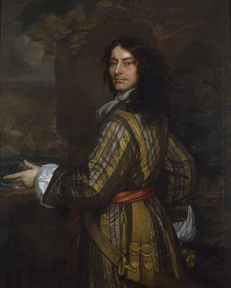 Flagmen of Lowestoft: Admiral Sir John Harman (d. 1673)